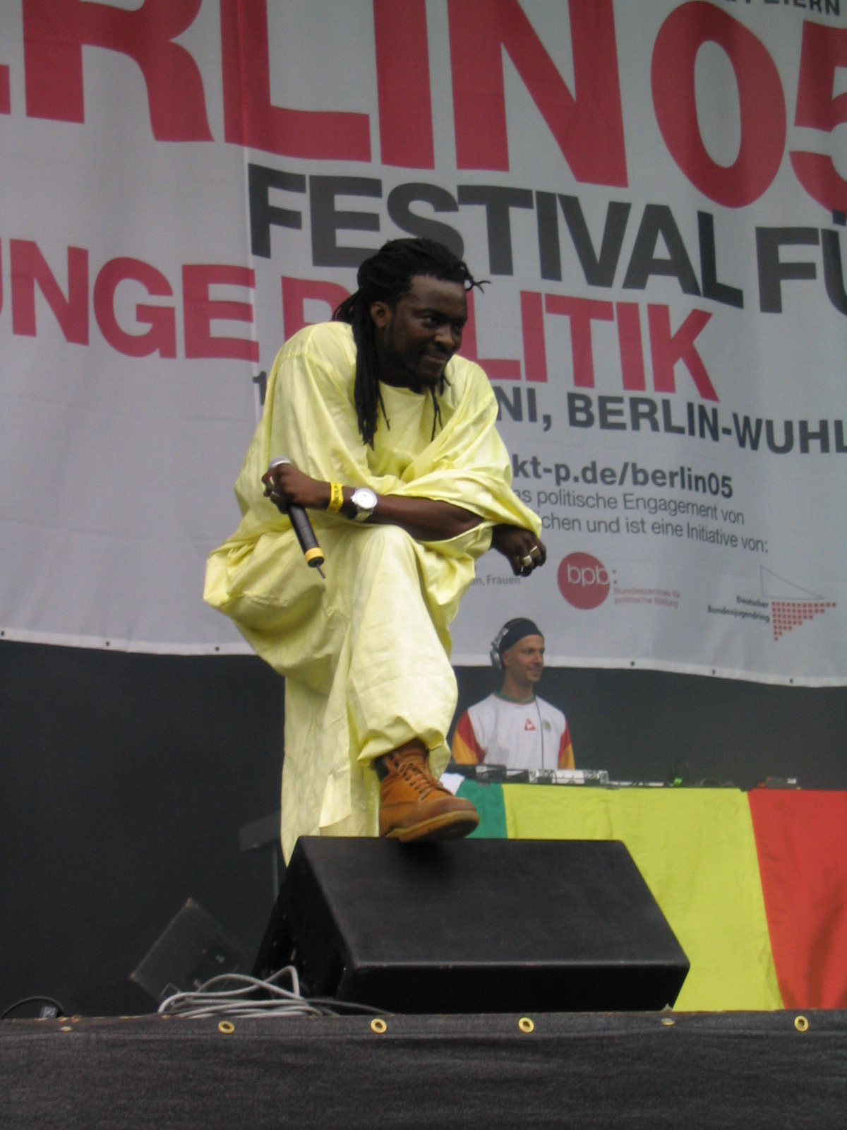 Darra J at the Berlin 05 festival